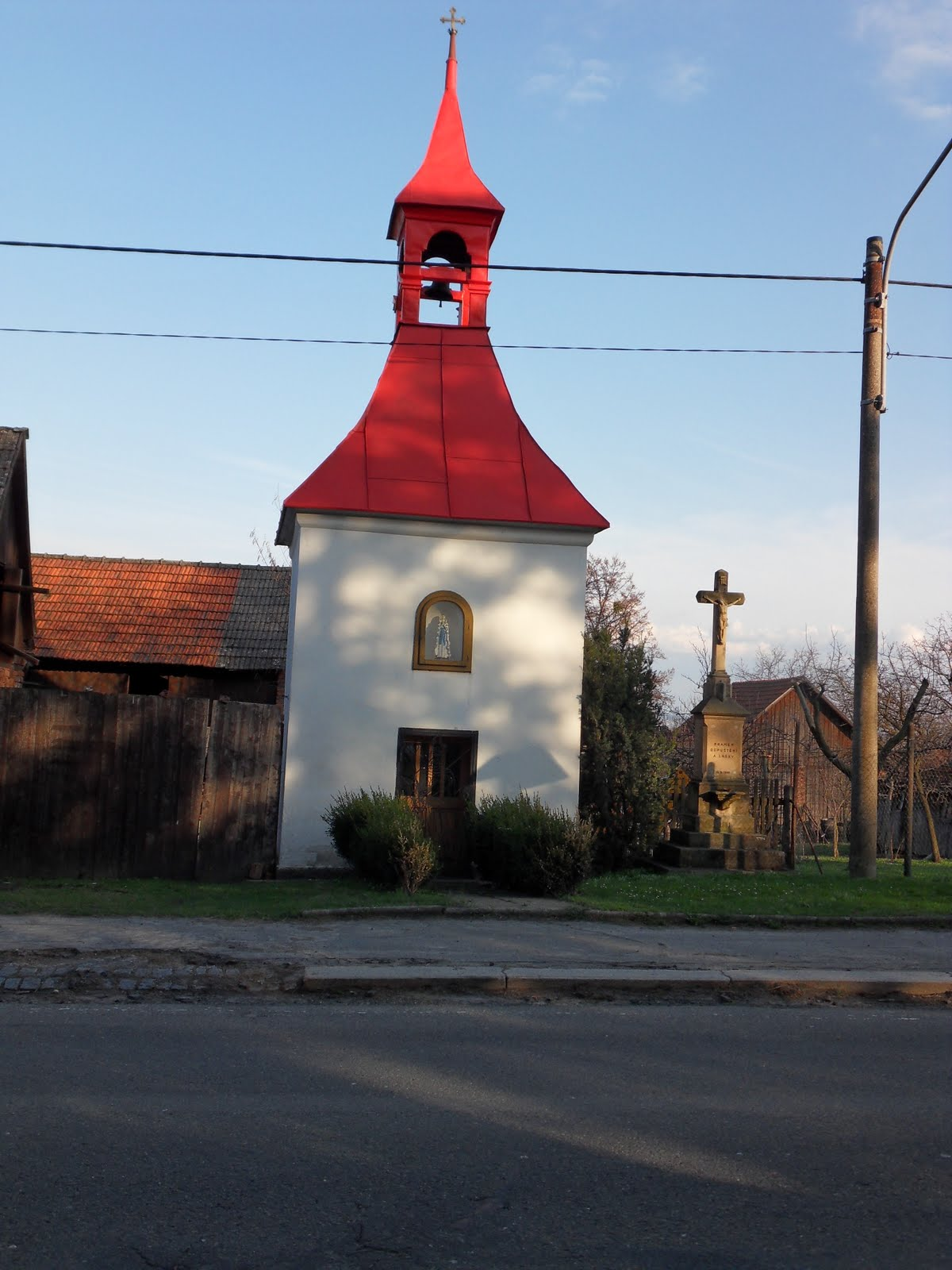 bell tower, the small church